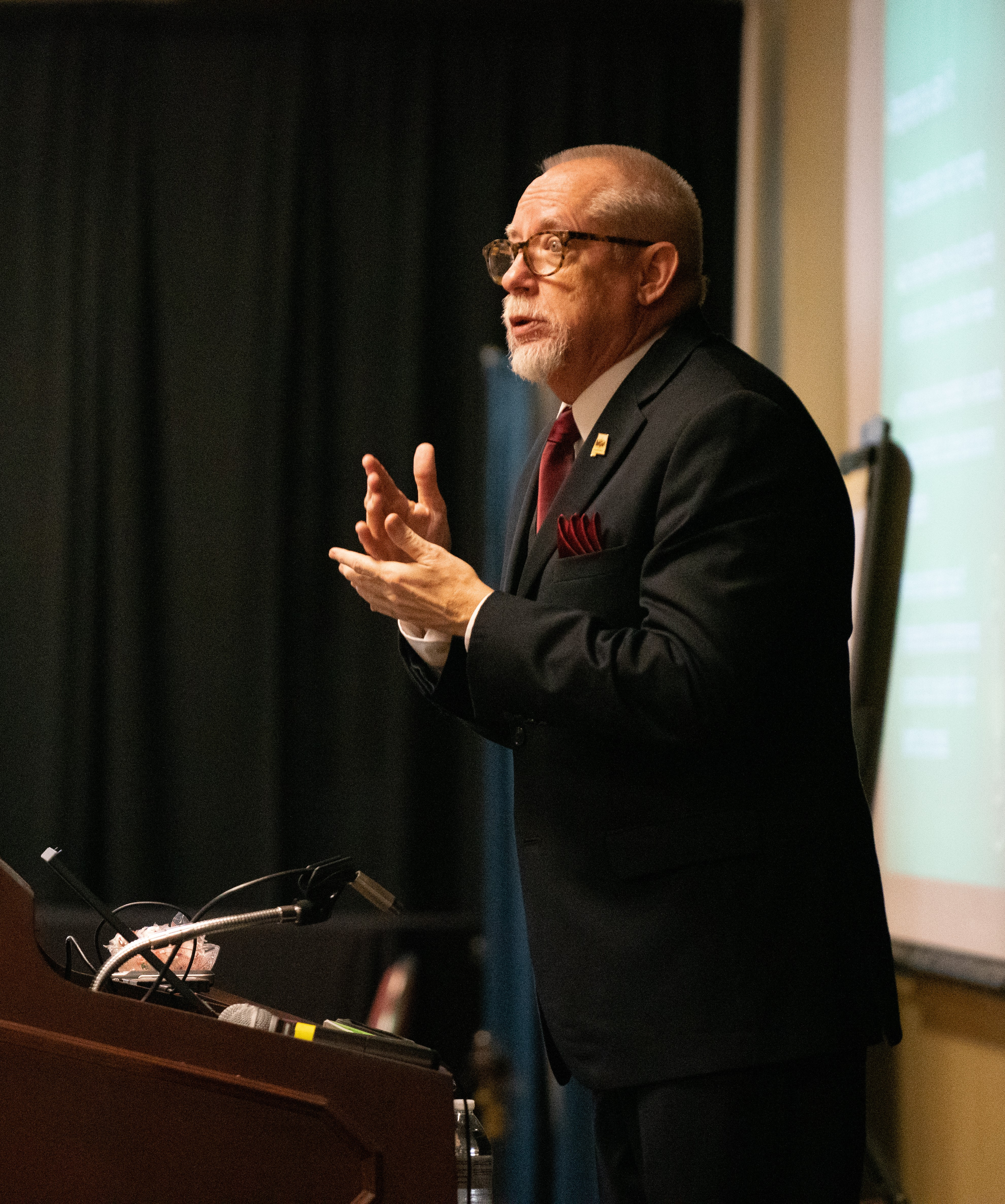 Steve Hamerdinger, a frequent presenter, lecturer and consultant, presents at the Mental Health Interpreter Training Project 2019 Interpreter Institute.